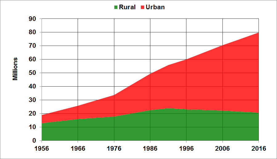 Changes in population of Iran divided into urban and rural.